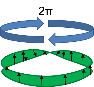 Spinorial object mobius band